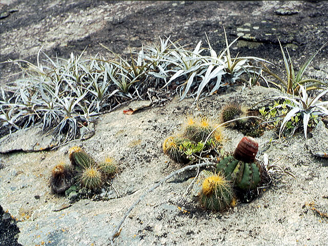 Orthophytum horridum along with Melocactus in habitat in Brazil, without exact location data.